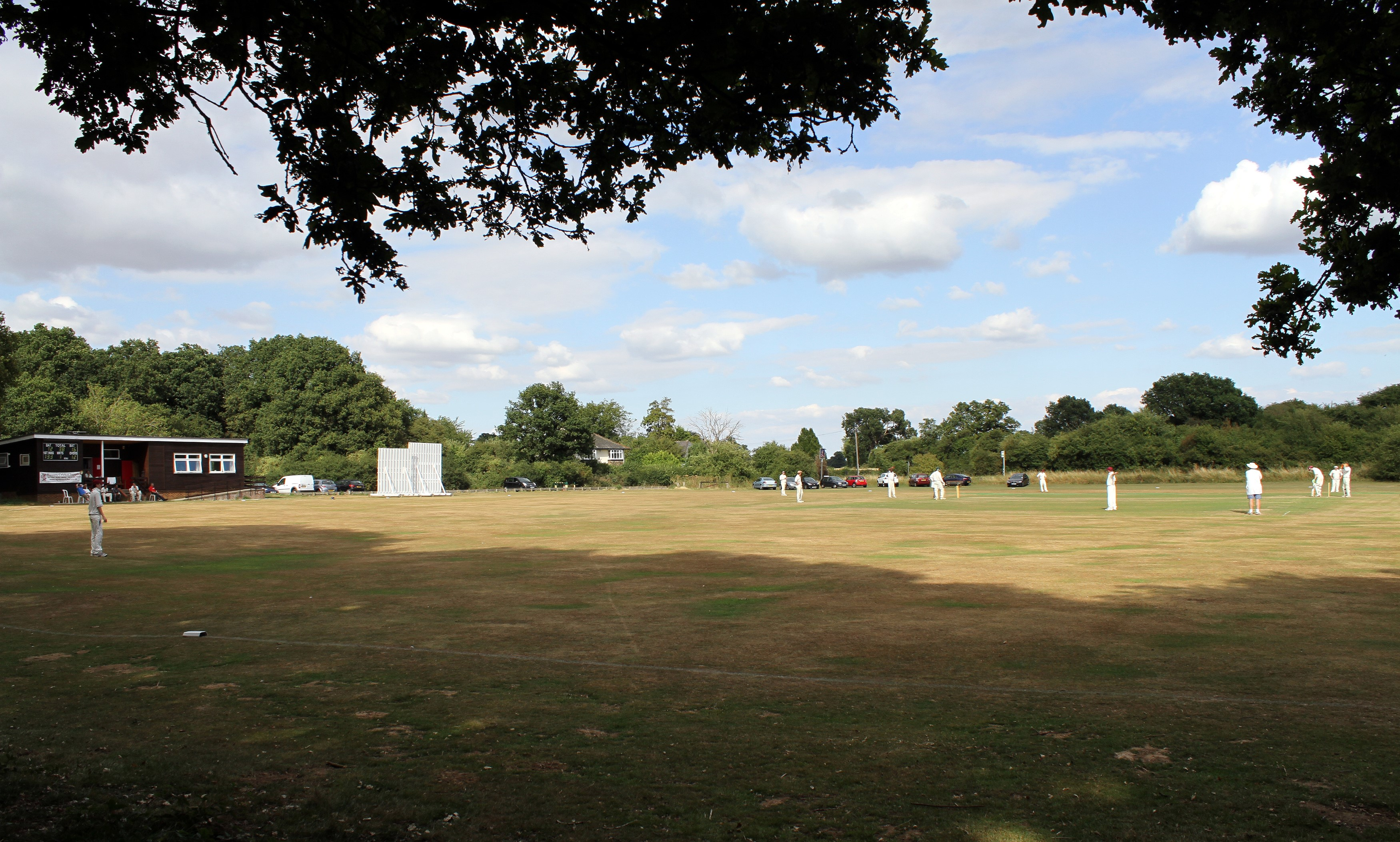 Cricket ground of Wheathampstead Cricket Club, Hertfordshire, England